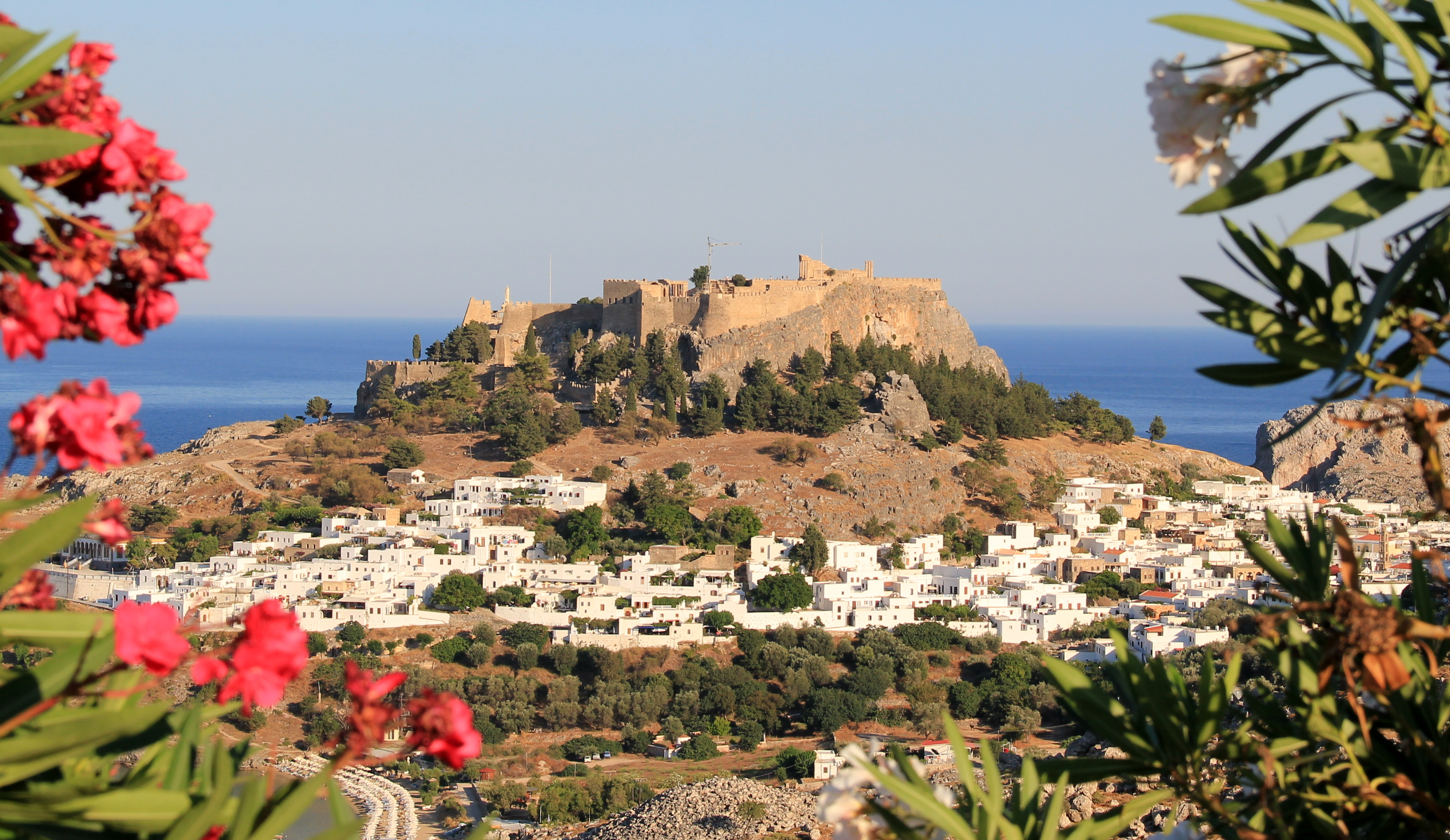 Town of Lindos at Rhodes island